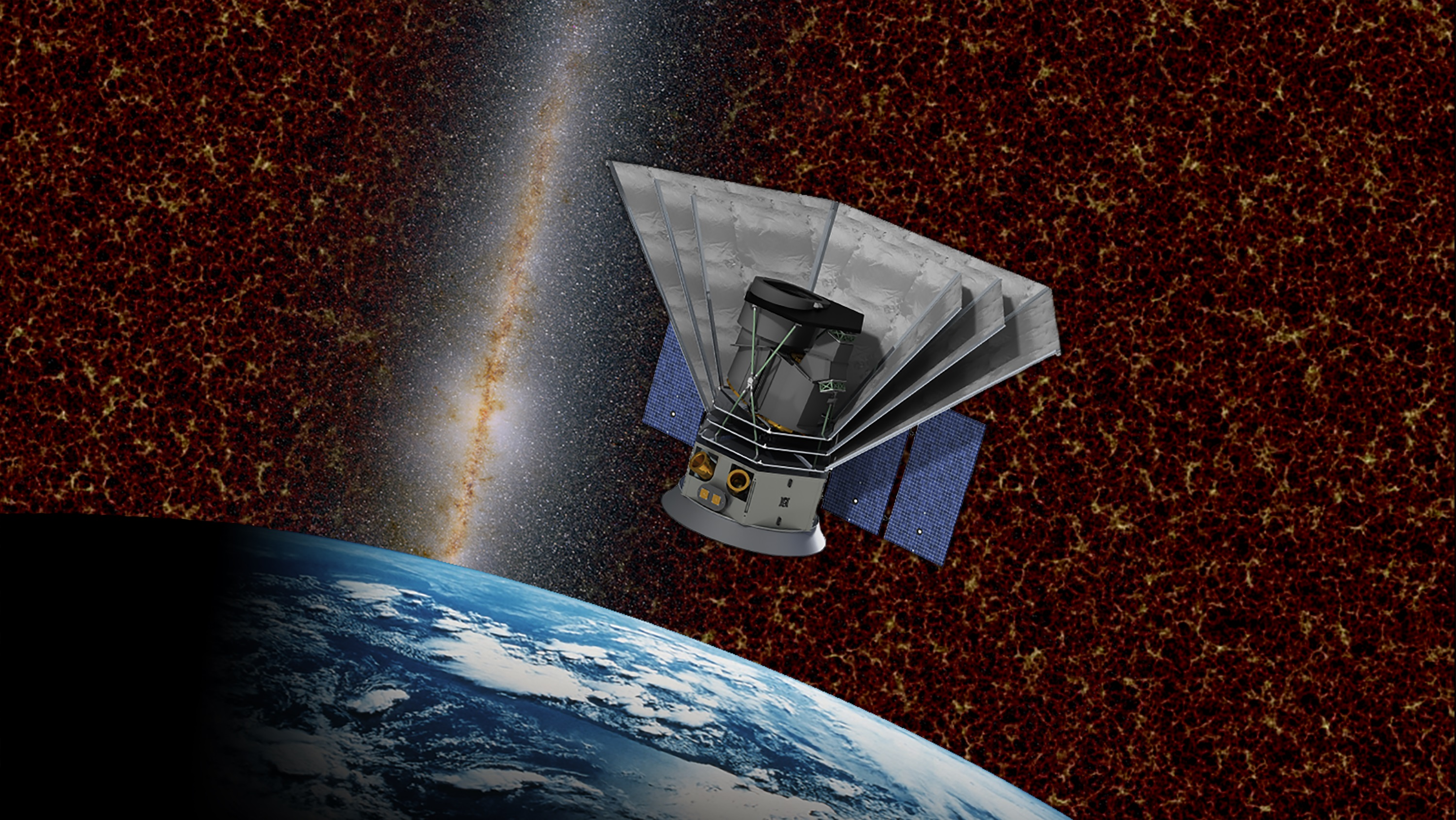 SPHEREx (Spectro-Photometer for the History of the Universe, Epoch of Reionization, and Ices Explorer) is a proposed space observatory by NASA that would explore the origin of the universe, the origin and history of galaxies, and explore the origin of water in planetary systems.